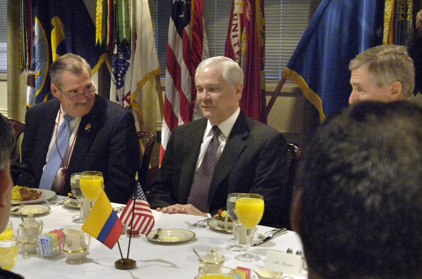 Pentagon Breakfast meeting, Februay 1, 2007